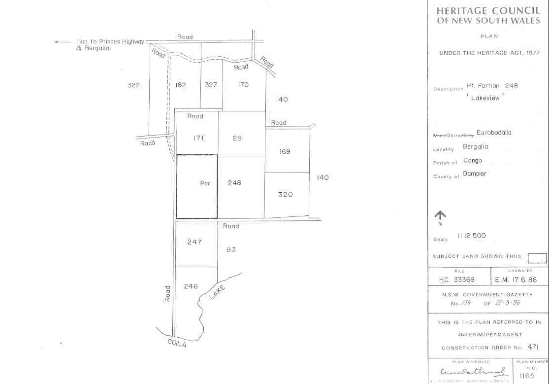 Lakeview Homestead Complex: PCO Plan Number 471